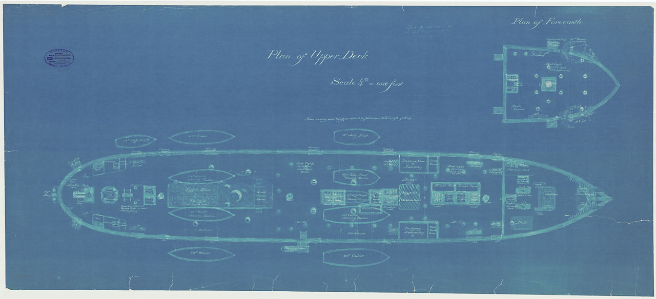 DISCOVERY 1901 Upper deck plan